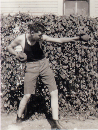 Photograph of Robert E. Howard. Teenaged Robert E. Howard, posing with boxing gloves by the side of his home.